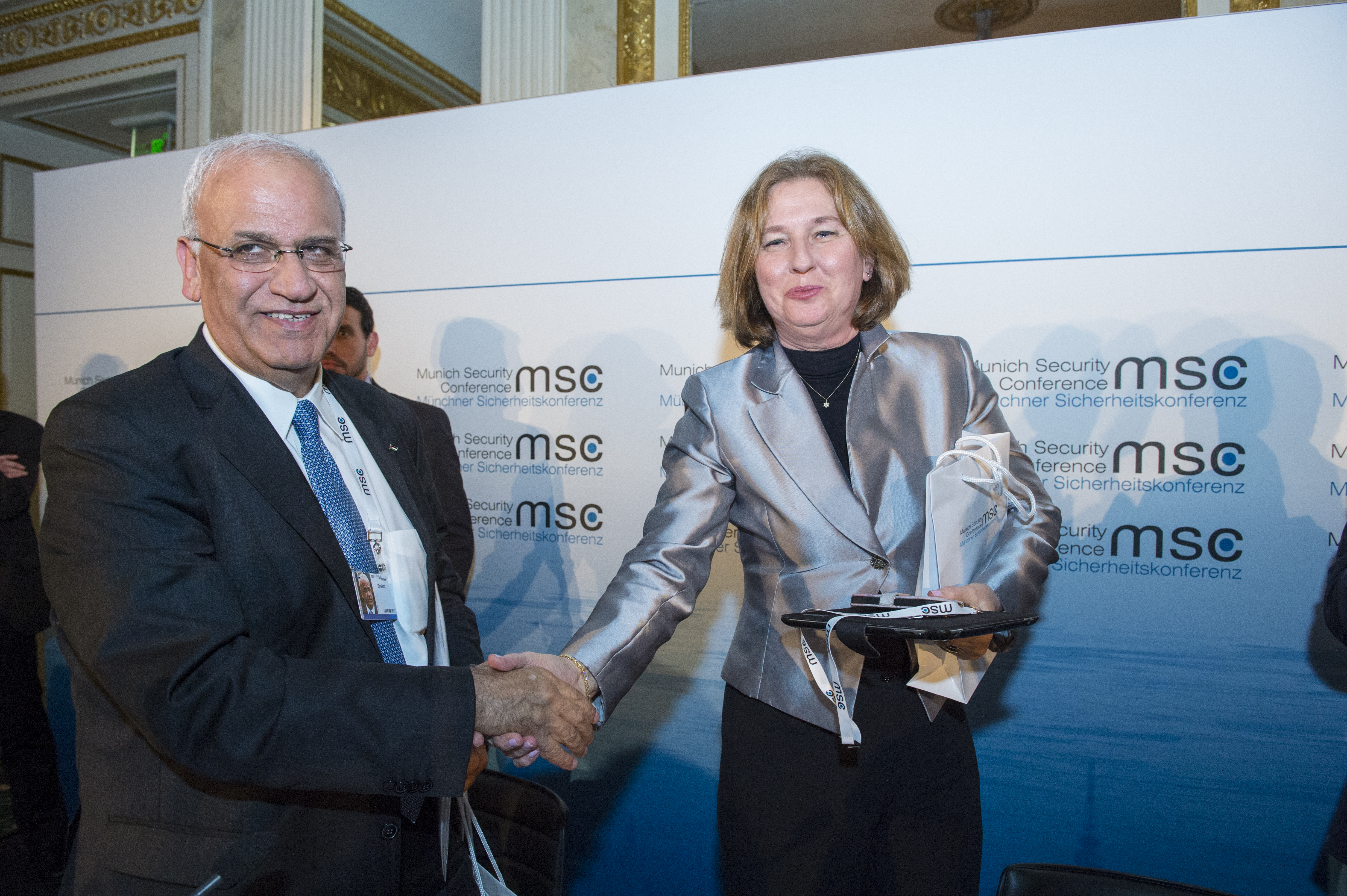 50th Munich Security Conference 2014: Saeb Erekat and Tzivi Livni: Saeb Erekat (Head of the Palestinian Negotiation Steering and Monitoring Committee, Palestinian National Authority) and Tzivi Livni (Minister of Justice, State of Israel).